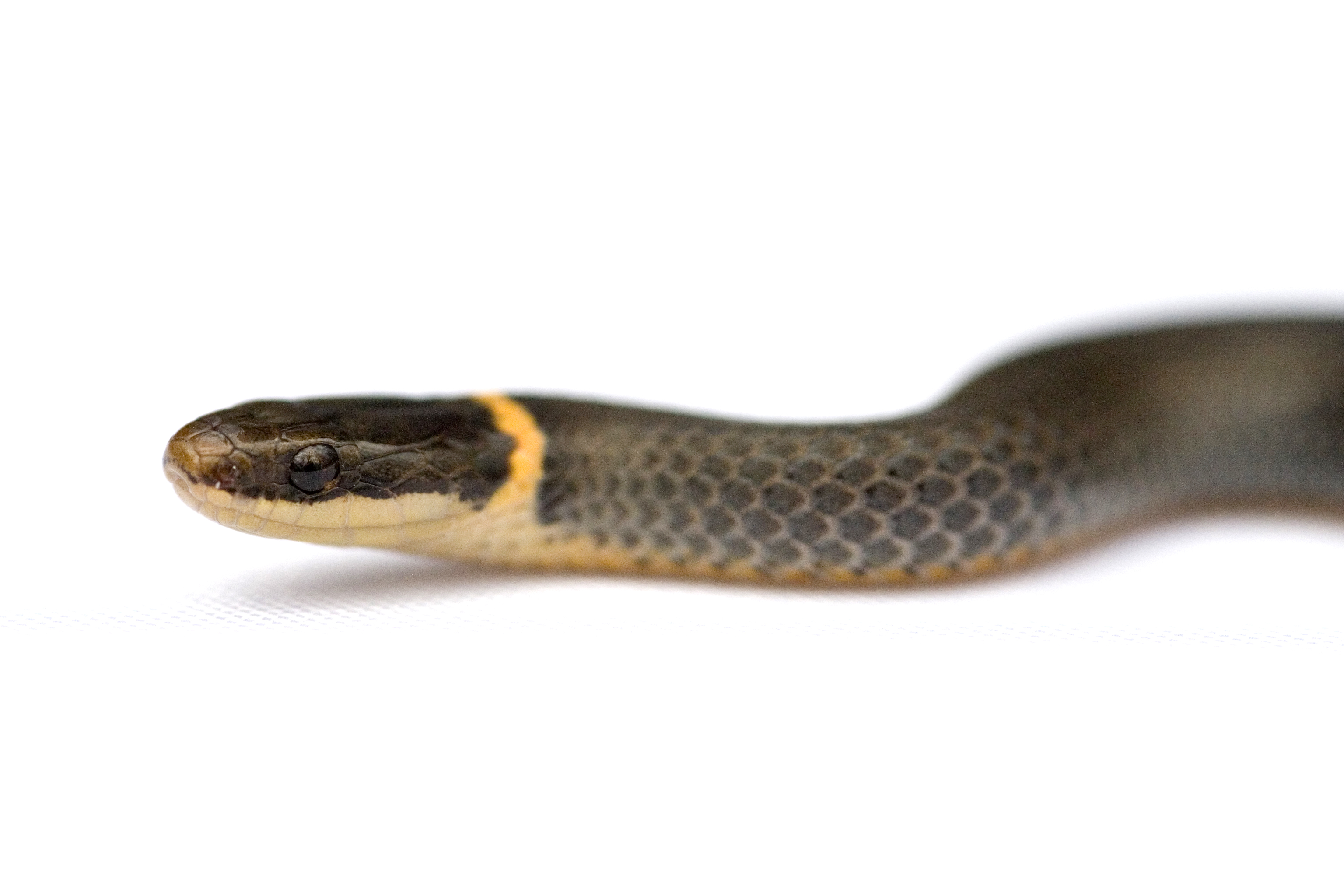 Ringneck Snake (Diadophis punctatus) reptile